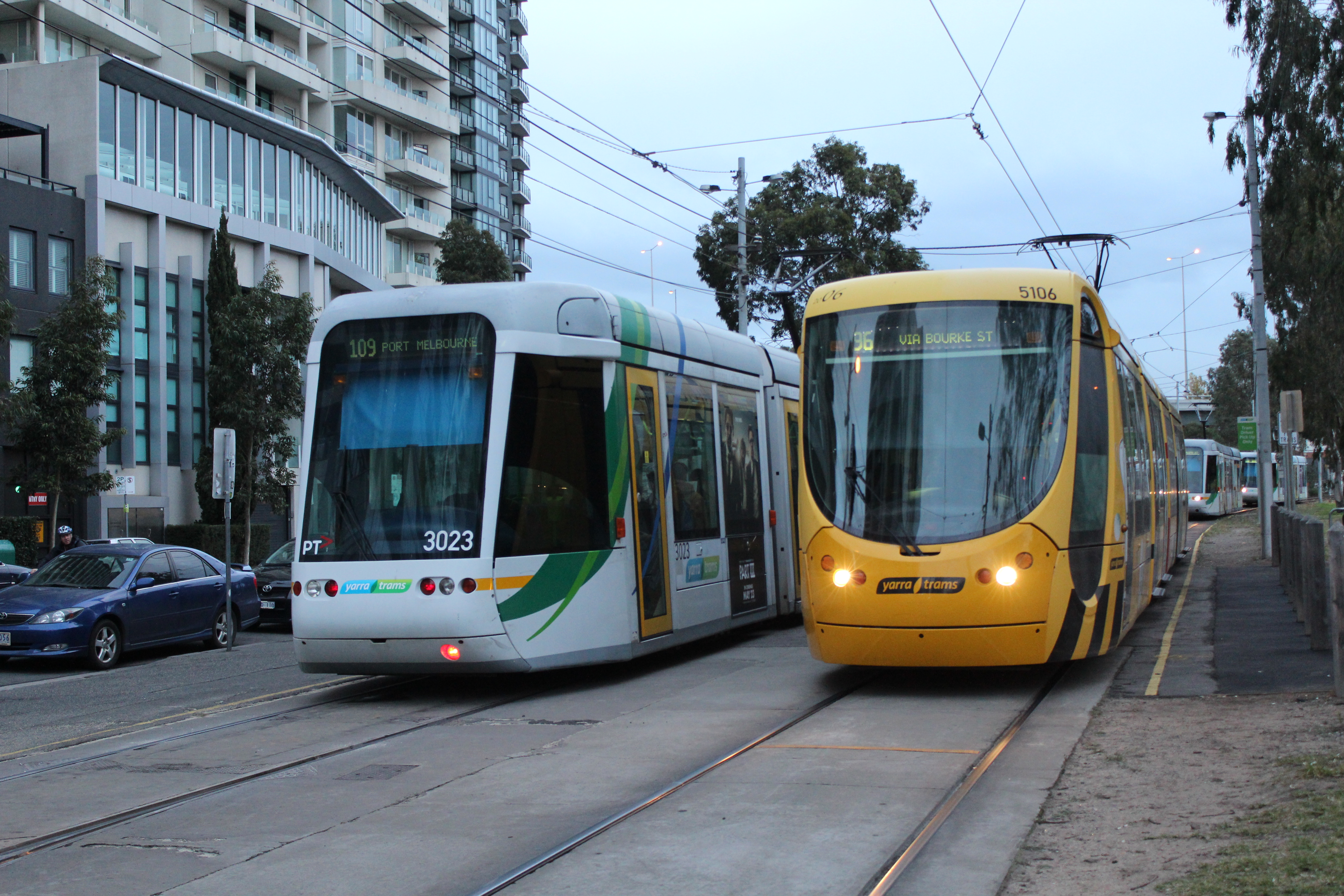 C1 3023 and C2 5106 at Port Junction on routes 109 and 96, 2013.